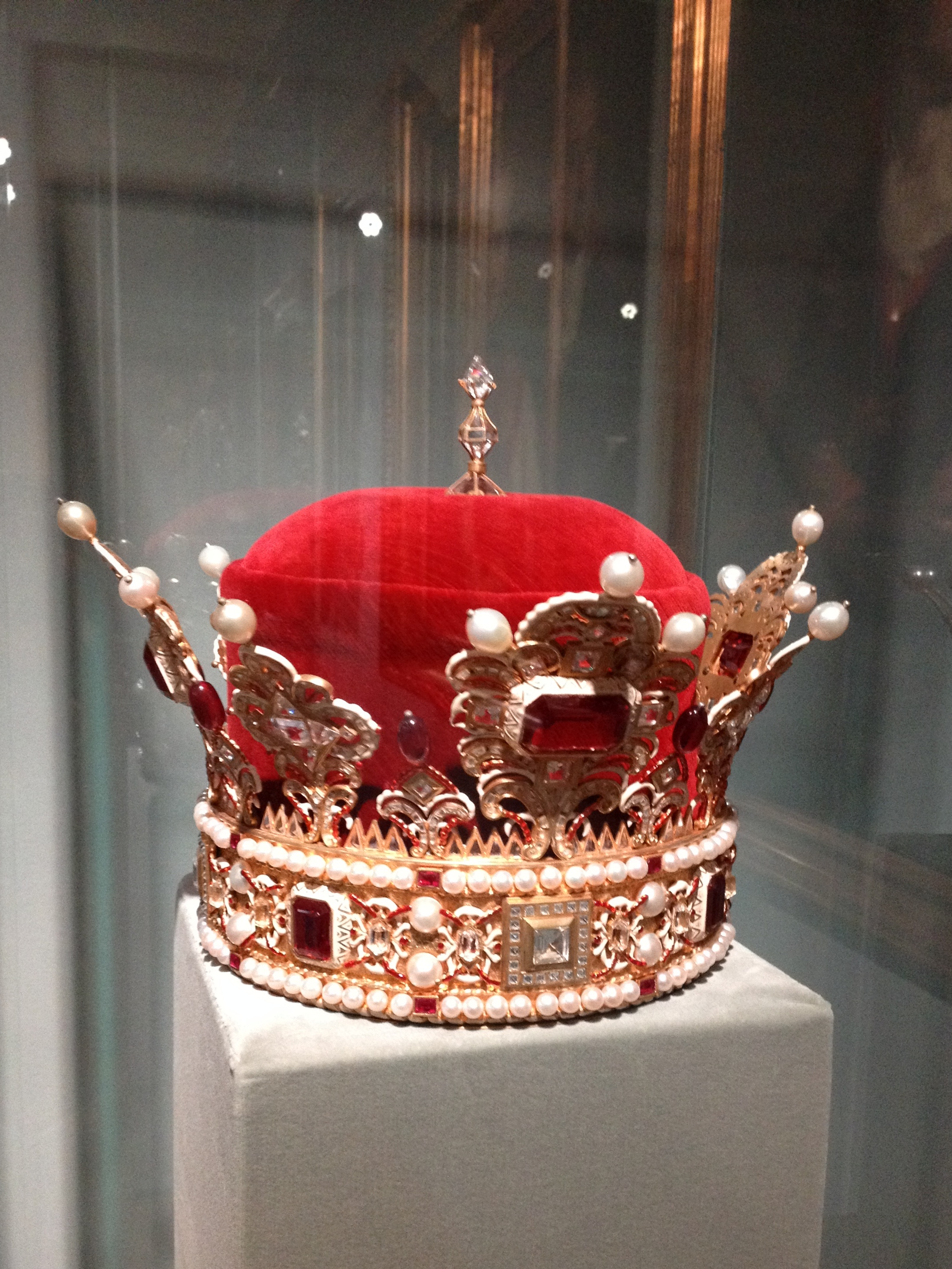 Ducal hat of Liechtenstein, in the Liechtensteinisches Landesmuseum.